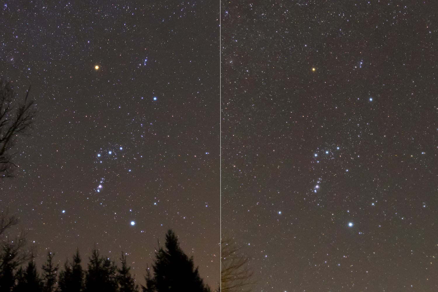 Betelgeuse (Alpha Orionis), the reddish star at the shoulder of Orion, is a semiregular variable star, which usually shines at about magnitude +0.5, only slightly fainter than Rigel (Beta Orionis), the blueish star at the foot of Orion at maigitude +0.1. In late 2019 and early 2020, however, Betelgeuse has undergone a unusually deep minima, when it's magnitude dropped to about +1.6. That is, it shone at less than 40% of it's usual luminosity, so it's brightness was compareable to Bellatrix (Gamma Orionis), the other shoulder star (+1.6 mag). In this view, the usual appearance of Orion (left, in an image taken on Feburary 22, 2012), is compared with a image taken taken on February 21, 2020 (right), clearly showing the unusual dimming of the red giant star. Both images were taken with identical setup and exposure data: Each is a 30 second exposure taken with a Canon EOS 550D camera at ISO 3200, 17mm f/2.8 lens, Cokin P830 diffusor, tracked with the Vixen Polarie star tracker).